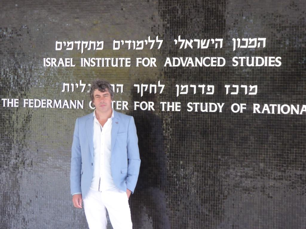 Jean-Yves Beziau at the Israel Institute for Advanced Studies in Jerusalem in January 2016